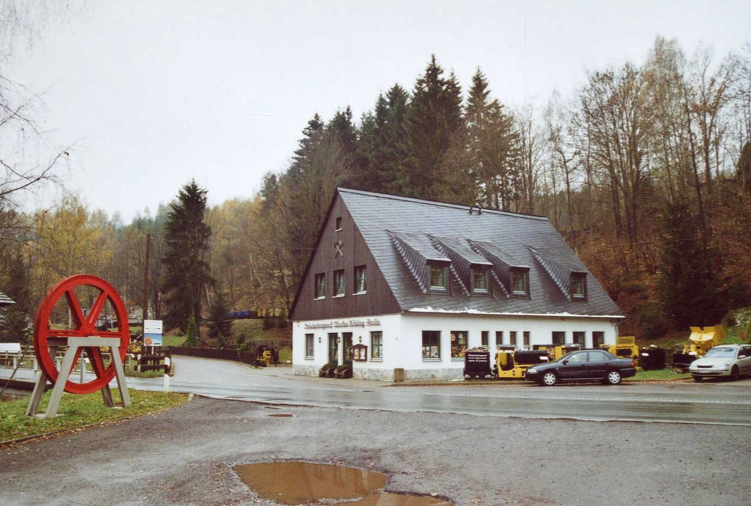 This image shows the visitor`s mine "Markus-Röhling-Stolln" in Annaberg-Buchholz in the Ore Mountains in Saxony, Germany.